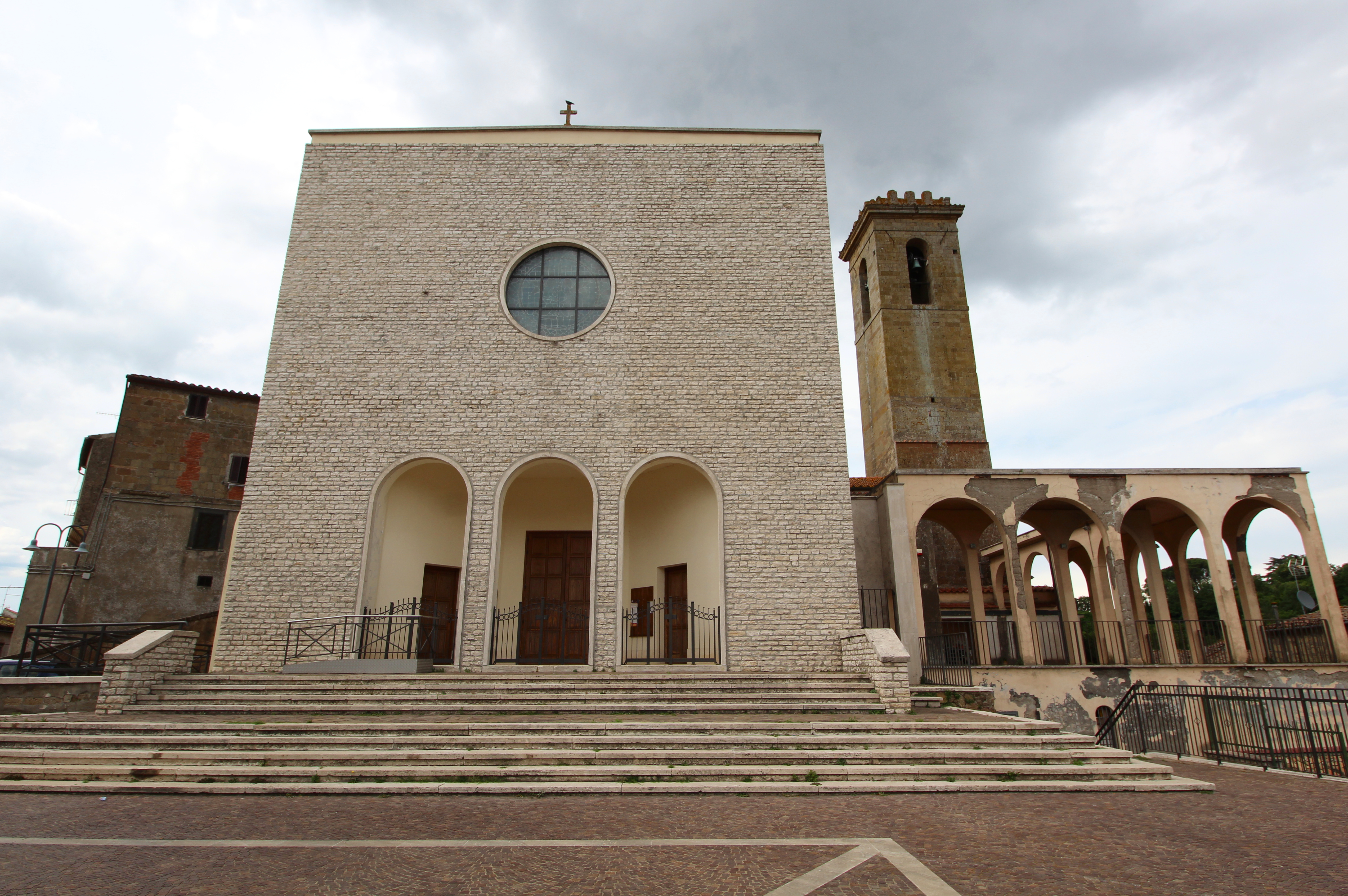 Church Santa Croce, Onano, Province of Viterbo, Lazio, Italy